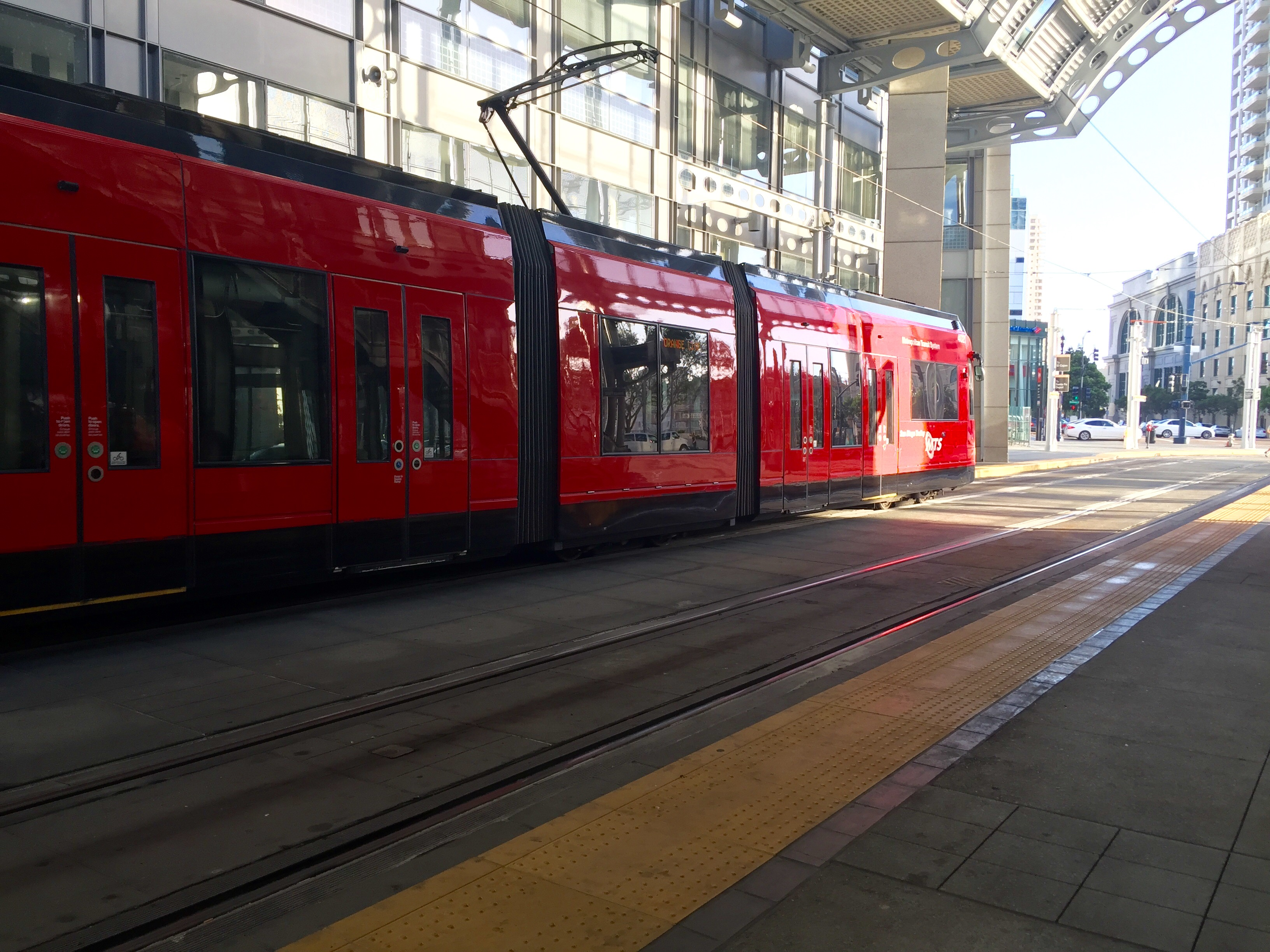 San Diego Trolley at America Plaza Station.